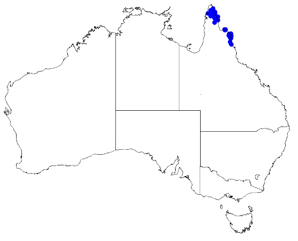 Boronia alulata occurrence data downloaded from Australasian Virtual Herbarium 10 April 2019 using This download included all the environmental overlay fields and ALA's data checking fields (over 600 fields) including "cultivated / escapee", "outside expert range for species", "latitude is negated", "coordinates are transposed", "taxon misidentified", "habitat incorrect for species", and "suspected outlier". Deleting occurrences for which any of the above were true, 46 specimens with coordinates were deleted. However this did not remove all obvious spatial outliers which were later removed by hand...